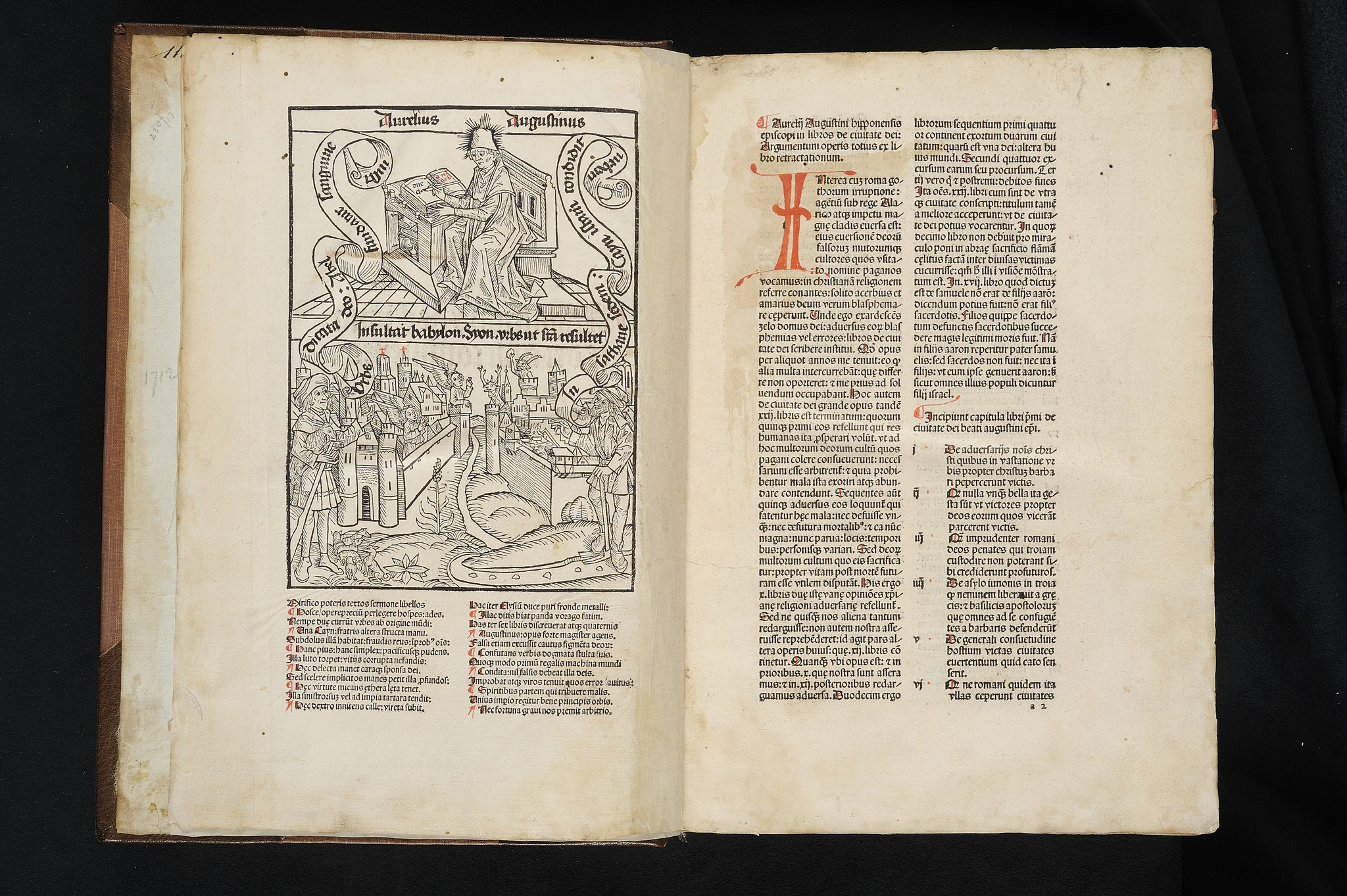 A page from The City of God by Augustine of Hippo, originally published in 426 AD. This copy dates from 1475.